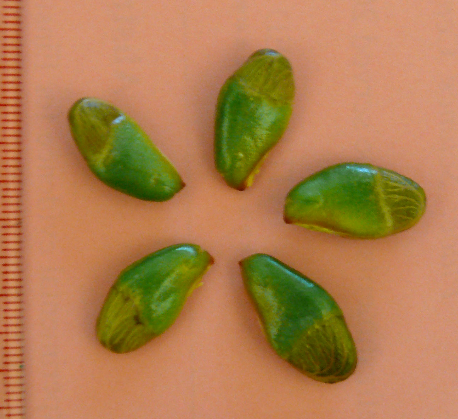 Seeds of Clausena lansium, photo taken in Hong Kong, plant grown in Hong Kong